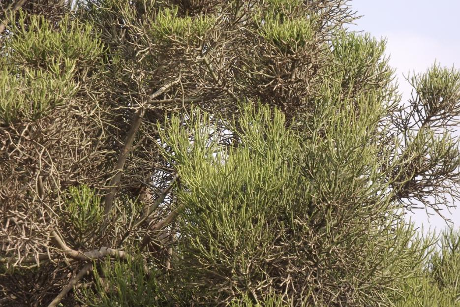 this photo taken at Cairo